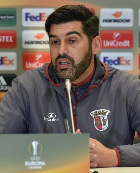 Paulo Fonseca